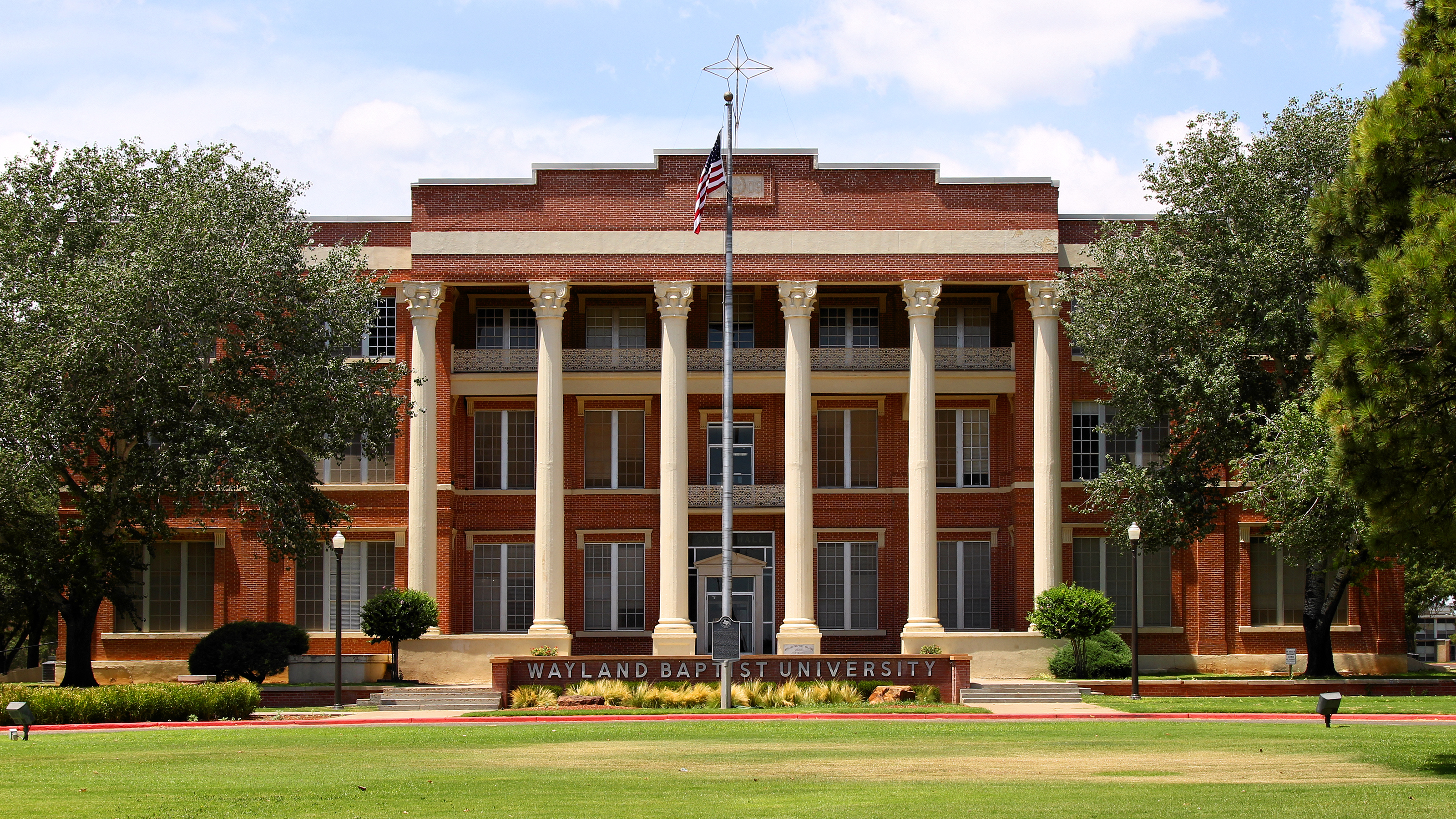 Main building at Wayland Baptist University in Plainview, Texas, United States.